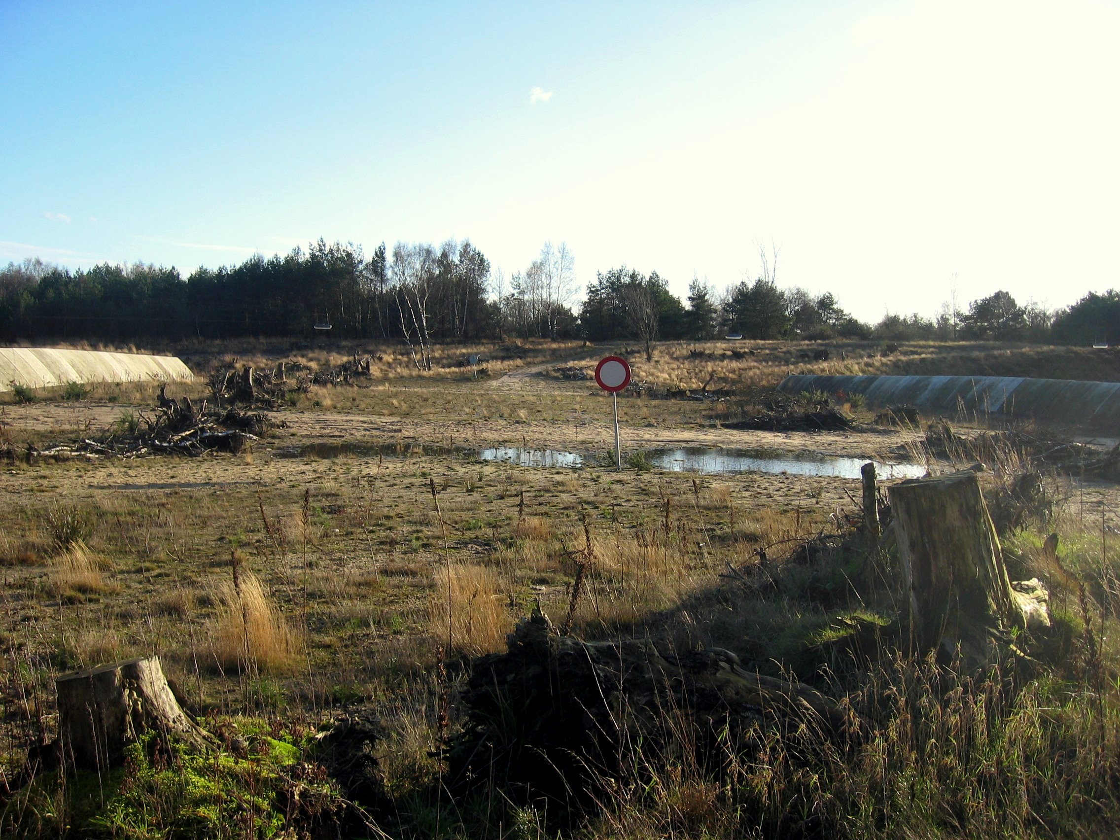 Wildlife Overpass Leusderheide, Netherlands